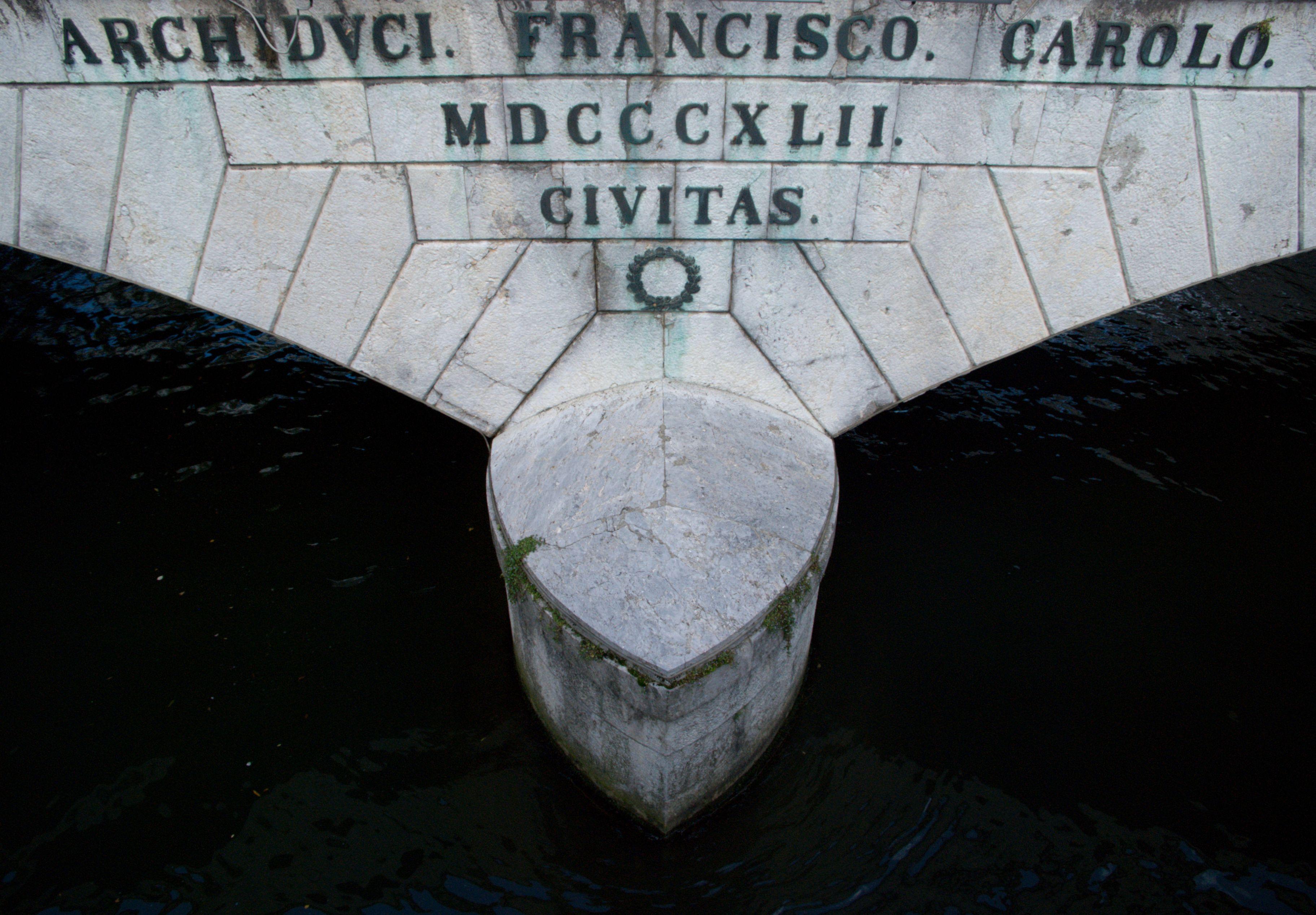 The Latin inscription on the upstream side of the central bridge of the Triple Bridge in Ljubljana (Slovenia): "To the Archduke Francis Carl. 1842. The city." The architecture was designed by Giovanni Picco (1842).